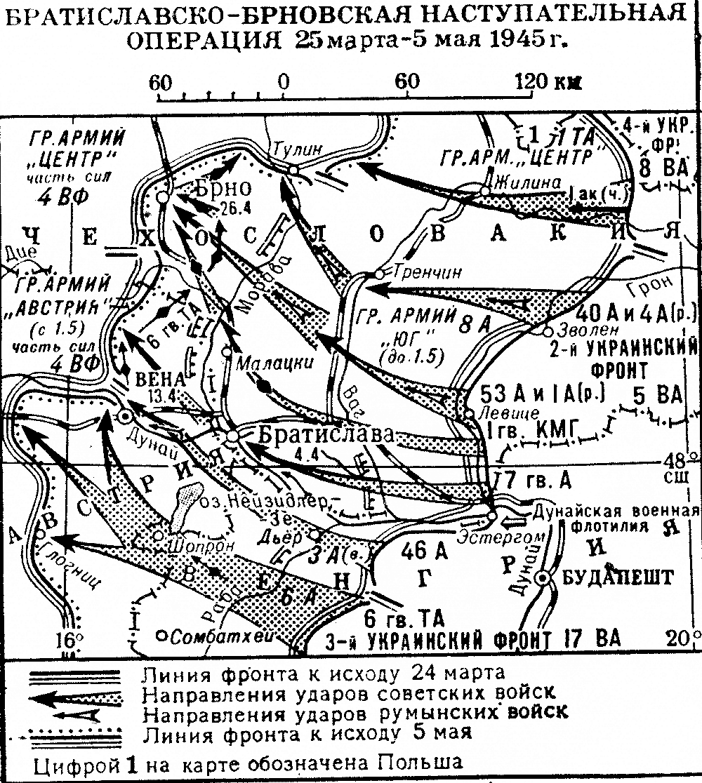 Soviet map of Bratislava-Brno Operation Česky: Sovětská mapa Bratislavsko-brněnské operace